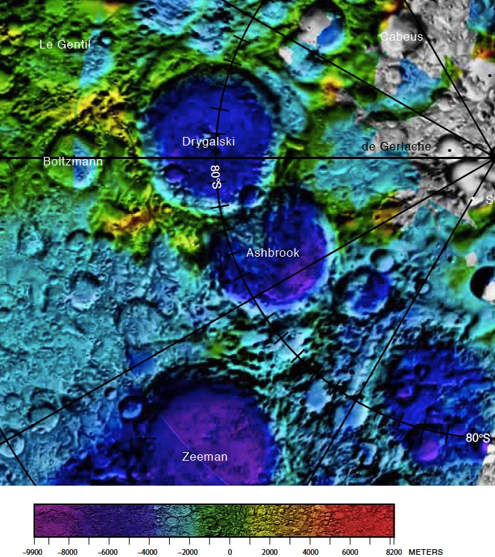 Part of the USGS Moon south pole area map.